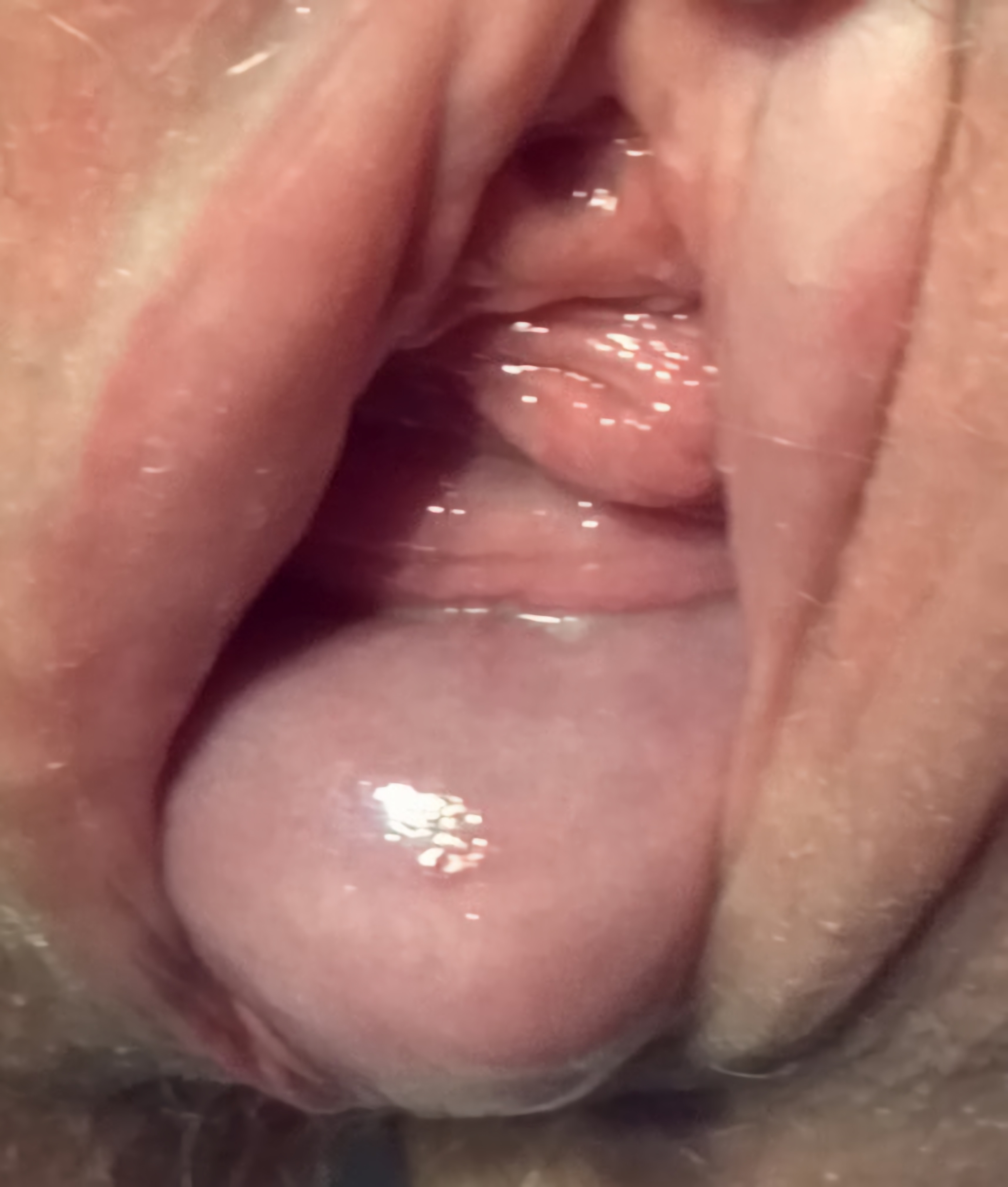 A 40 year old woman with uterine prolapse, which is visible in standing position, with the cervix protruding through the vulva. In supine position the prolapse is not apparent.